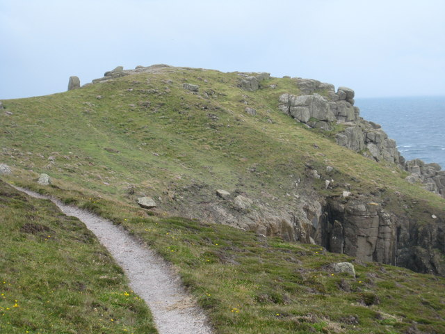 Cliff-castle at Carn Les Boel The ditch and rampart of this small Iron Age cliff-castle can be clearly seen. The large stone pillar probably marks the location of the entrance.